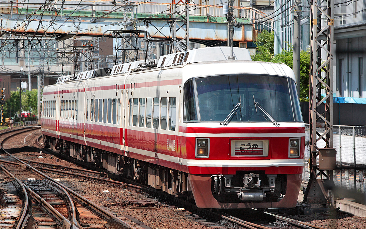 Nankai 30000 series EMU, on Limited Express "Kōya" ( 30003F )